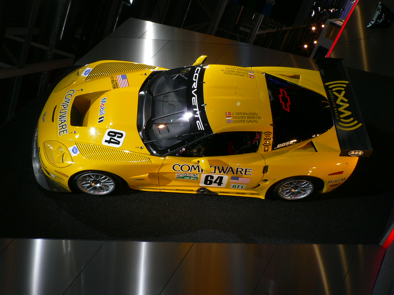 Chevrolet Corvette C5 at the 2006 Paris Motor Show